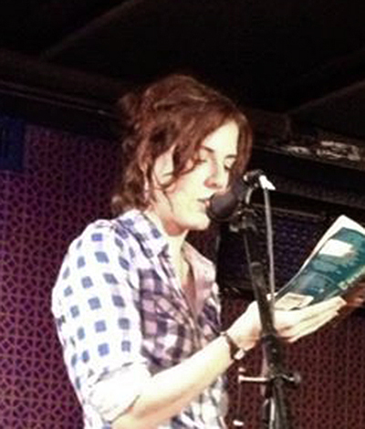 Julia Wertz reading at Union Hall in Brooklyn, New York